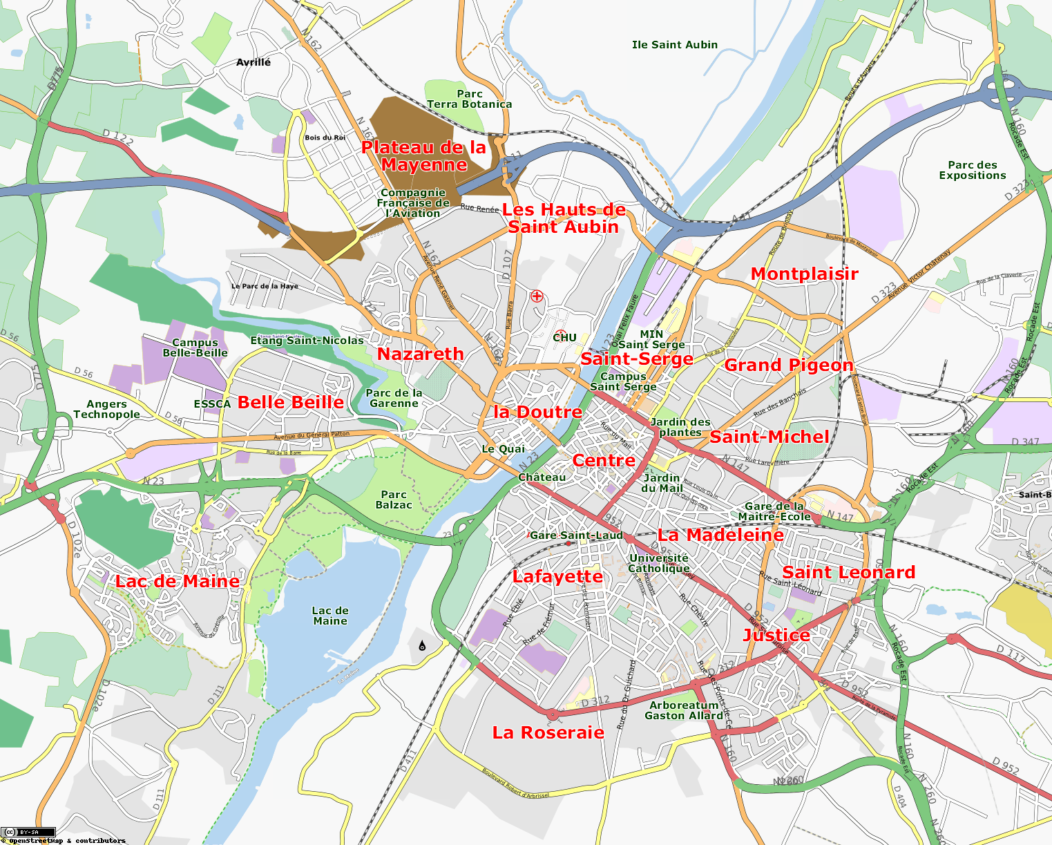 Map of Angers